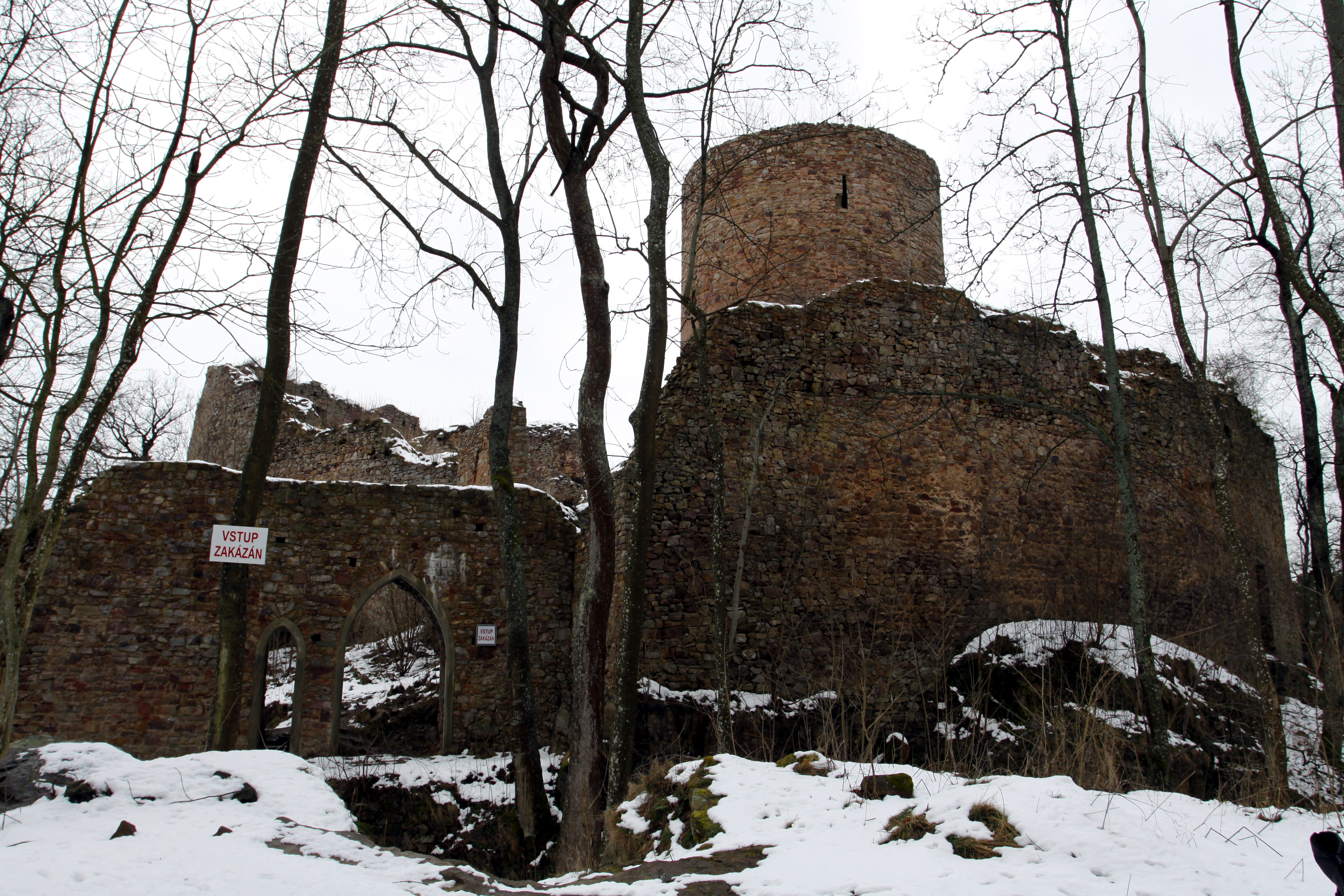 Ruins of Valdek Castle in CHKO Brdy, Czech Republic